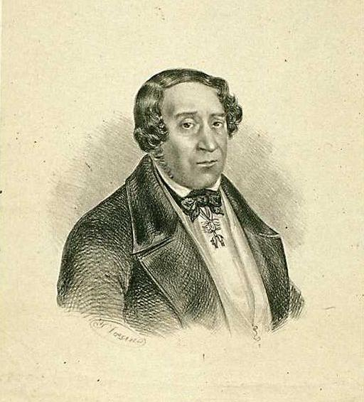 Litography representing the 14th Duke of Frías, briefly Prime Minister of Spain